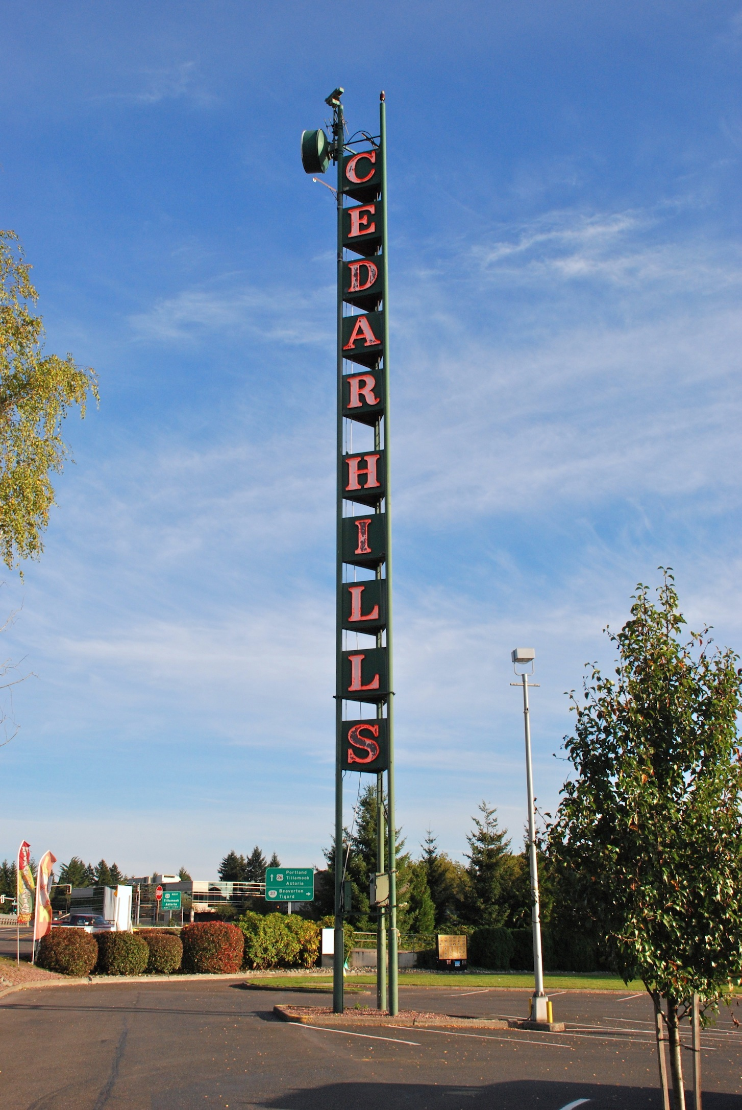 The tall, neon "Cedar Hills" sign, a local landmark – in place since the 1950s and visible from the nearby Sunset Highway (freeway). It is located in the parking lot of the Cedar Hills Shopping Center, which opened in 1955 and is located immediately southwest of the interchange of the Sunset Highway and Oregon Highway 217 freeways.